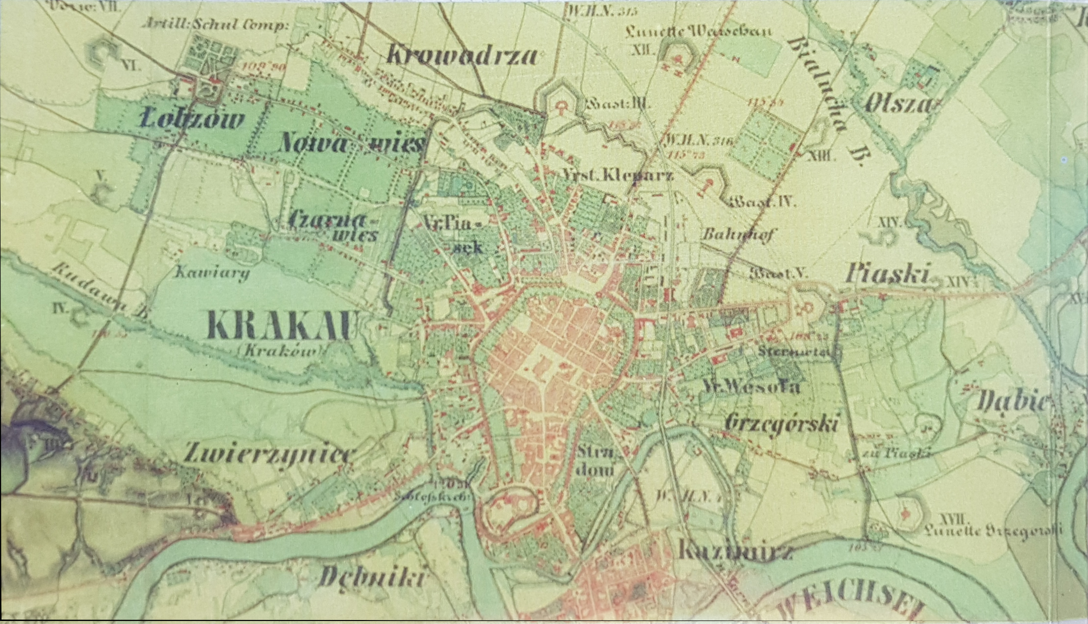 Kraków environs in the years 1861-1862, Kriegsarchive in Wien